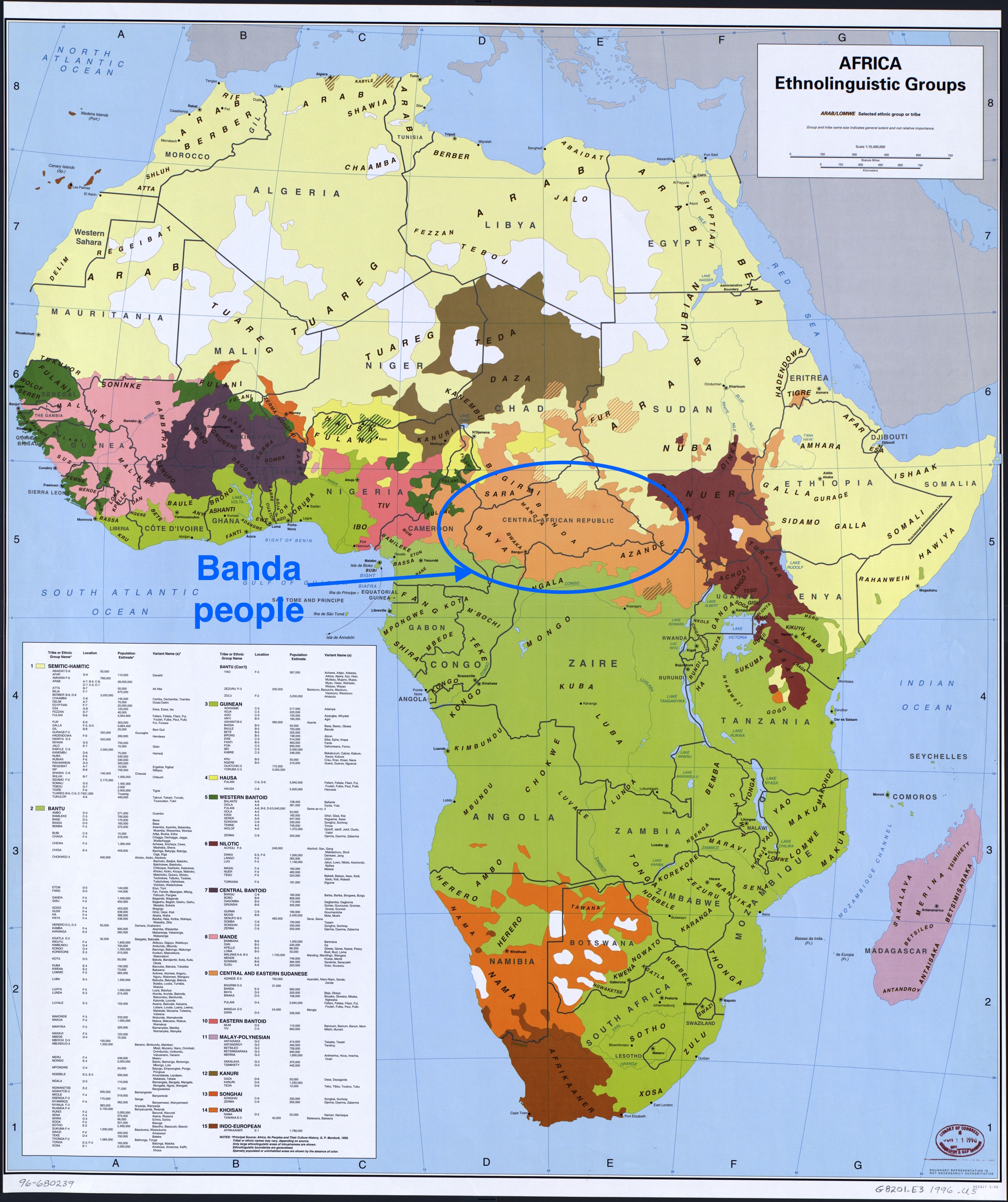 This is a derivative work of the following image available on wikimedia under creative commons license: File:Africa ethnic groups 1996.jpg